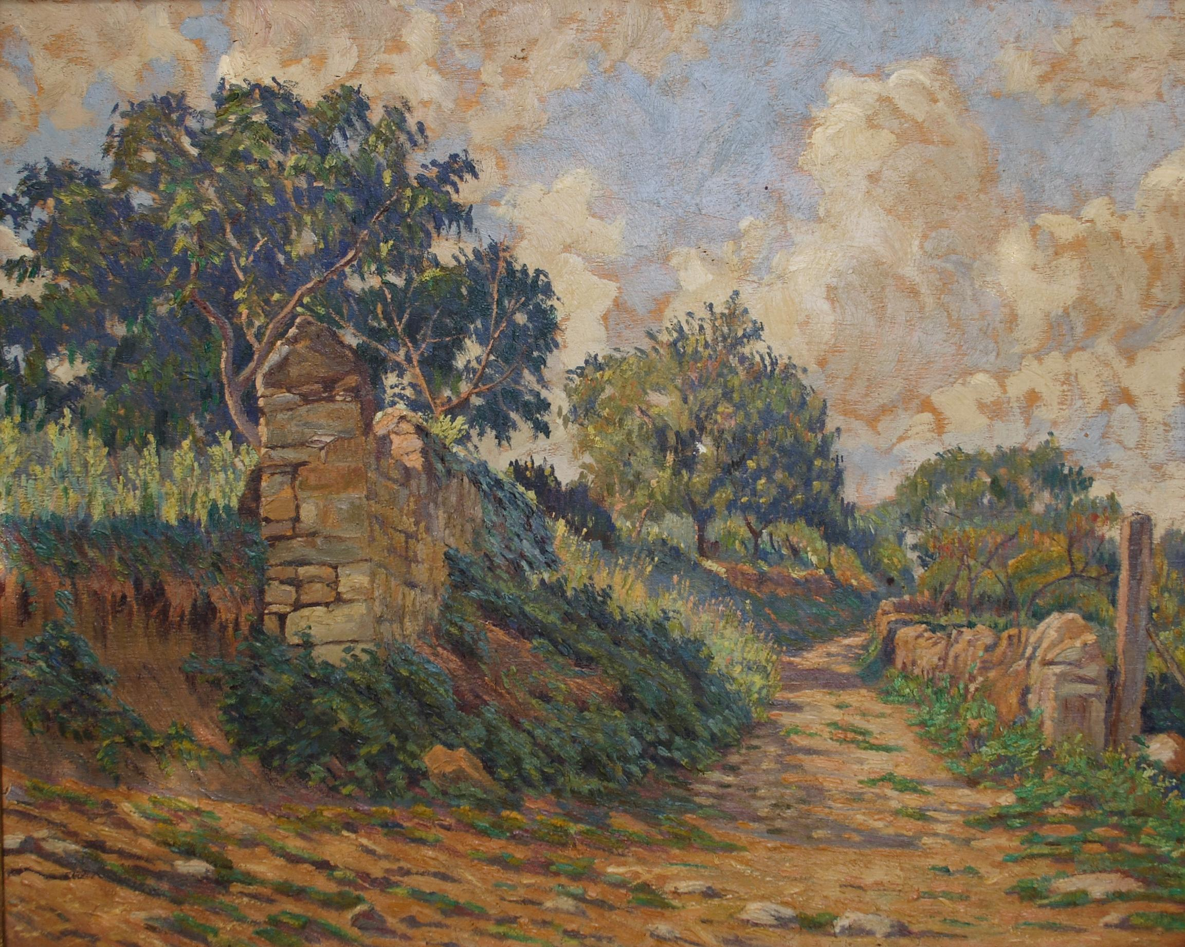 A path at Carennac by Georges Emile Lebacq around 1935.